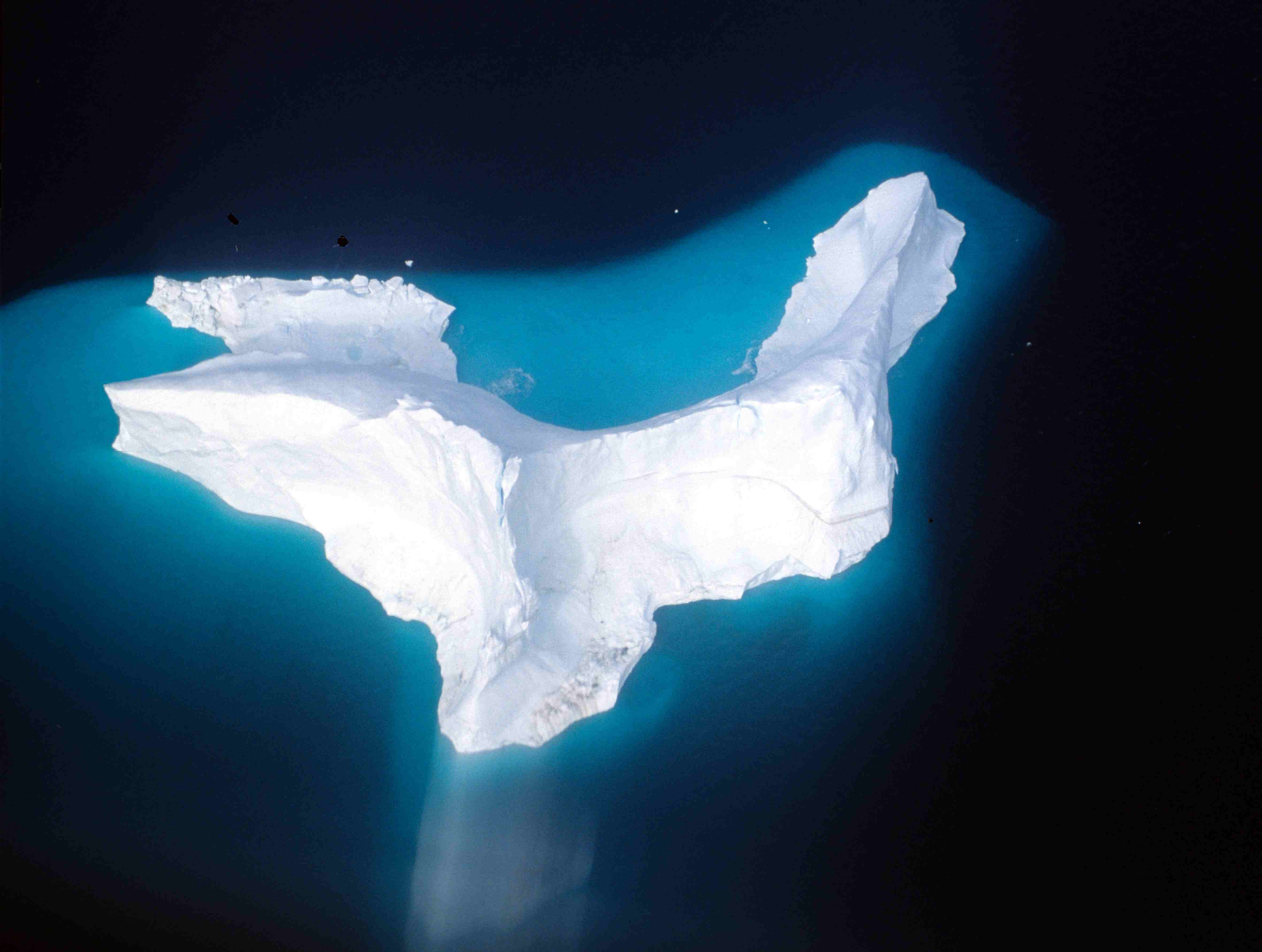 Iceberg near north-eastern coast of Baffin Island